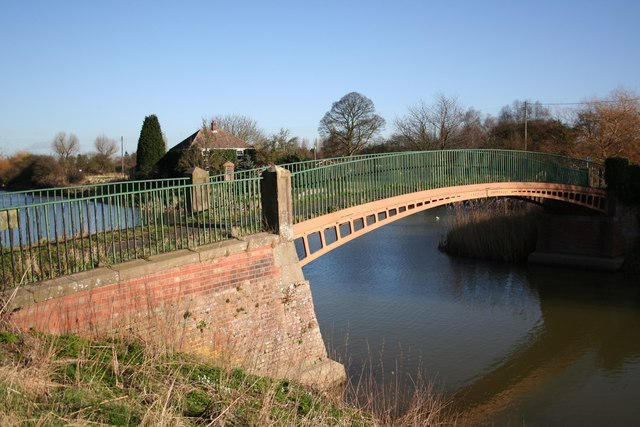 Cowbridge footbridge One of three footbridges cast at Butterley in Derbyshire in 1811 and erected over the Maud Foster Drain. Designed either by John Rennie or William Jessop, Vauxhall Bridge was replaced by a road bridge in 1924 but Hospital Bridge in Boston remains